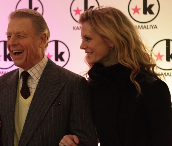 Emilia Fox and her father, Edward Fox at the Kamaliya (real name Natalya Shmarenkova) launch party of UK debut single 'Crazy In My Heart ' held at Pulbrook & Gould in London, England - 13.12.11.